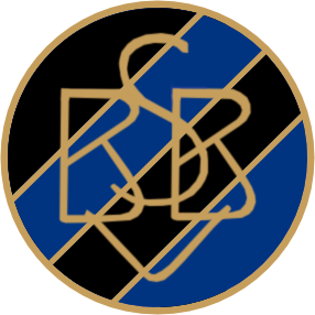 Logo of Bielitz-Bialaer Sportverein (BBSV).